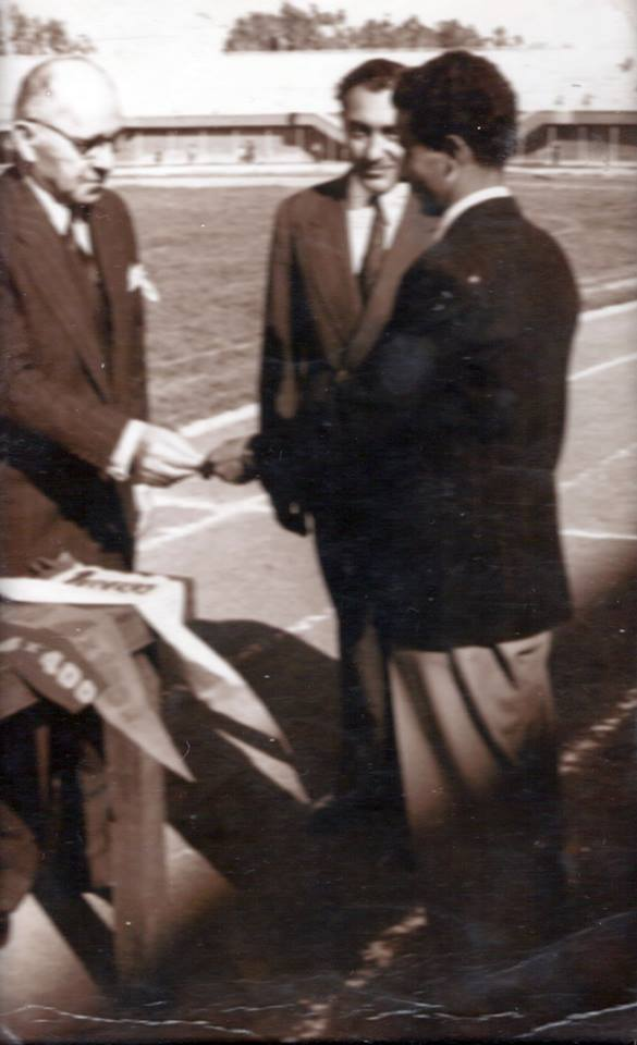 Raşit Öztaş Receving a medal (Location Unknown, possibly London)